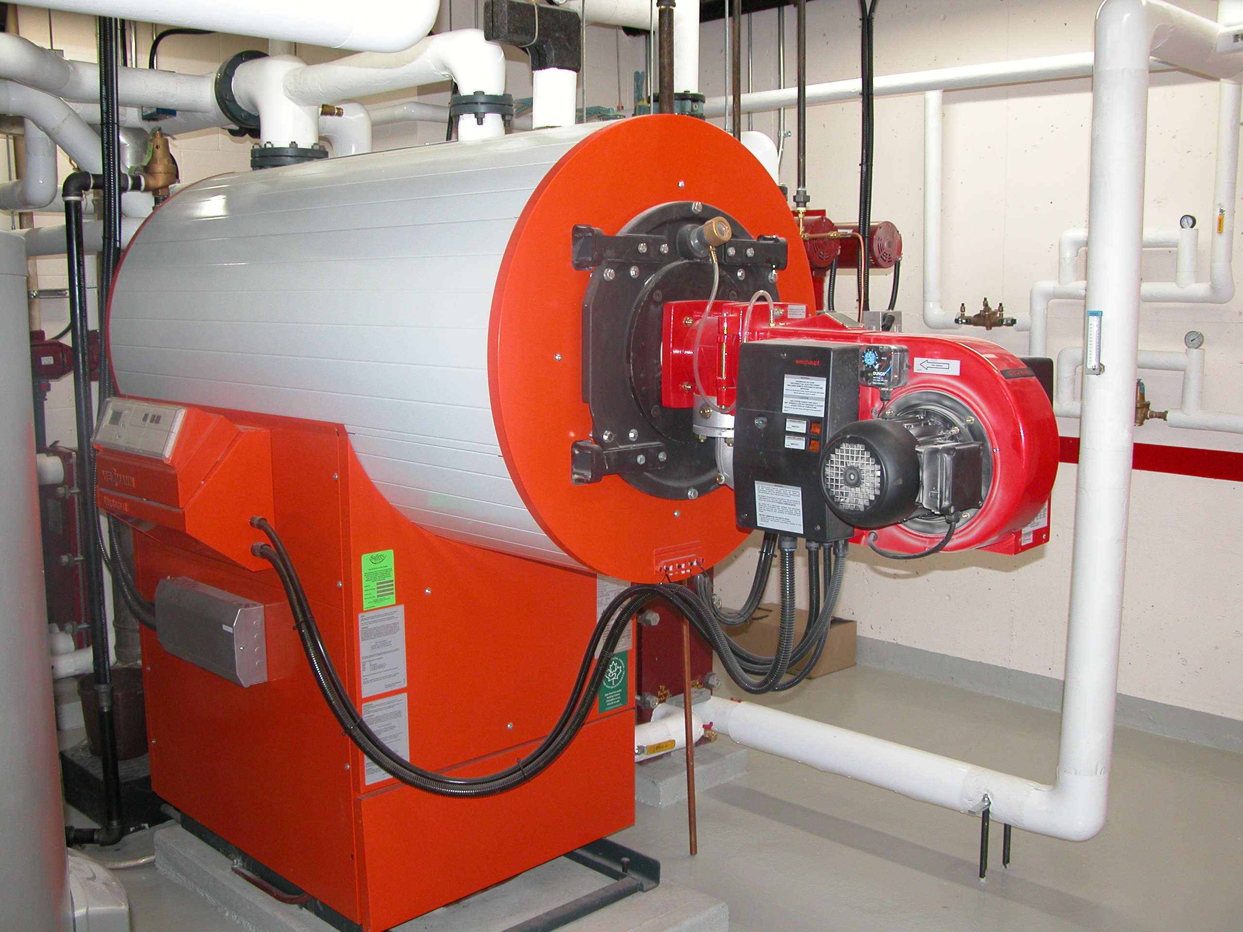 Picture of Viessmann Vertomat Condensing Boiler Installed in Multi-unit Apartment Building in White Rock, British Columbia, Canada. Photograph taken by Douglas Dunn, 2006